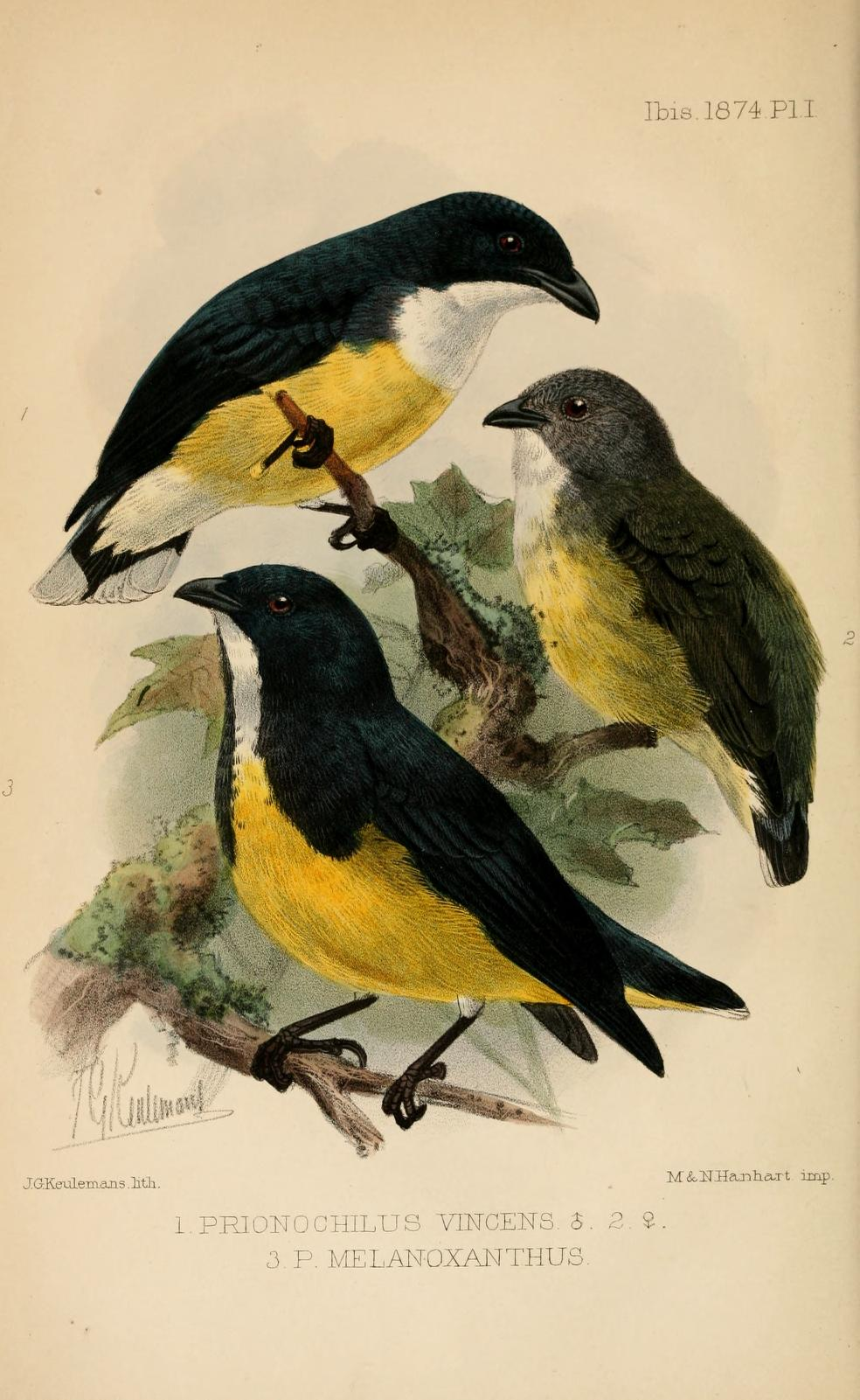 1. & 2. « Prionochilus vincens » = Dicaeum vincens (Legge's Flowerpecker) - male and female 3. « Prionchilus melanoxanthus » = Dicaeum melanoxanthum (Yellow-bellied Flowerpecker)